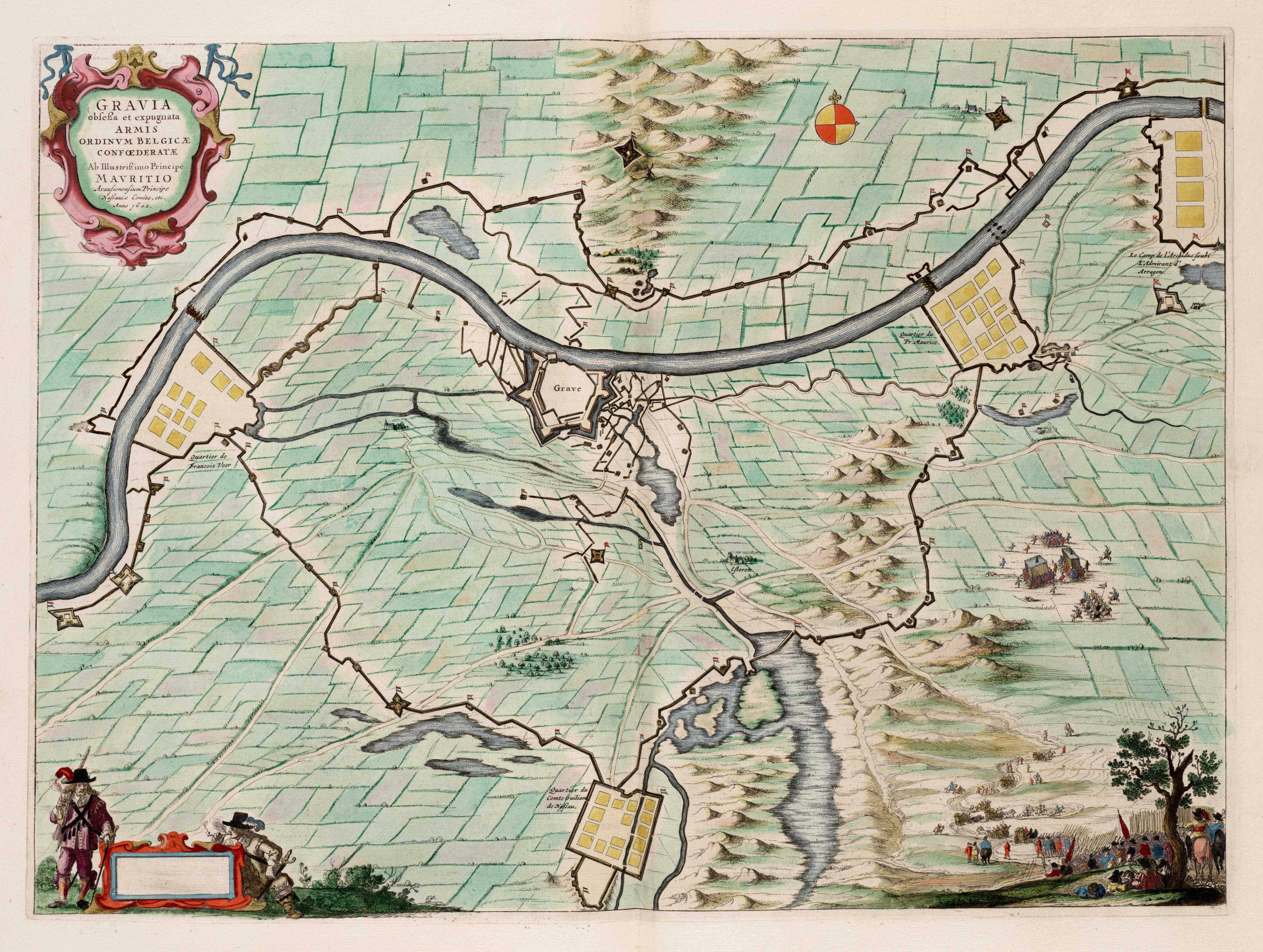 Map of the siege of Grave (The Netherlands) in 1602 by Maurice of Orange